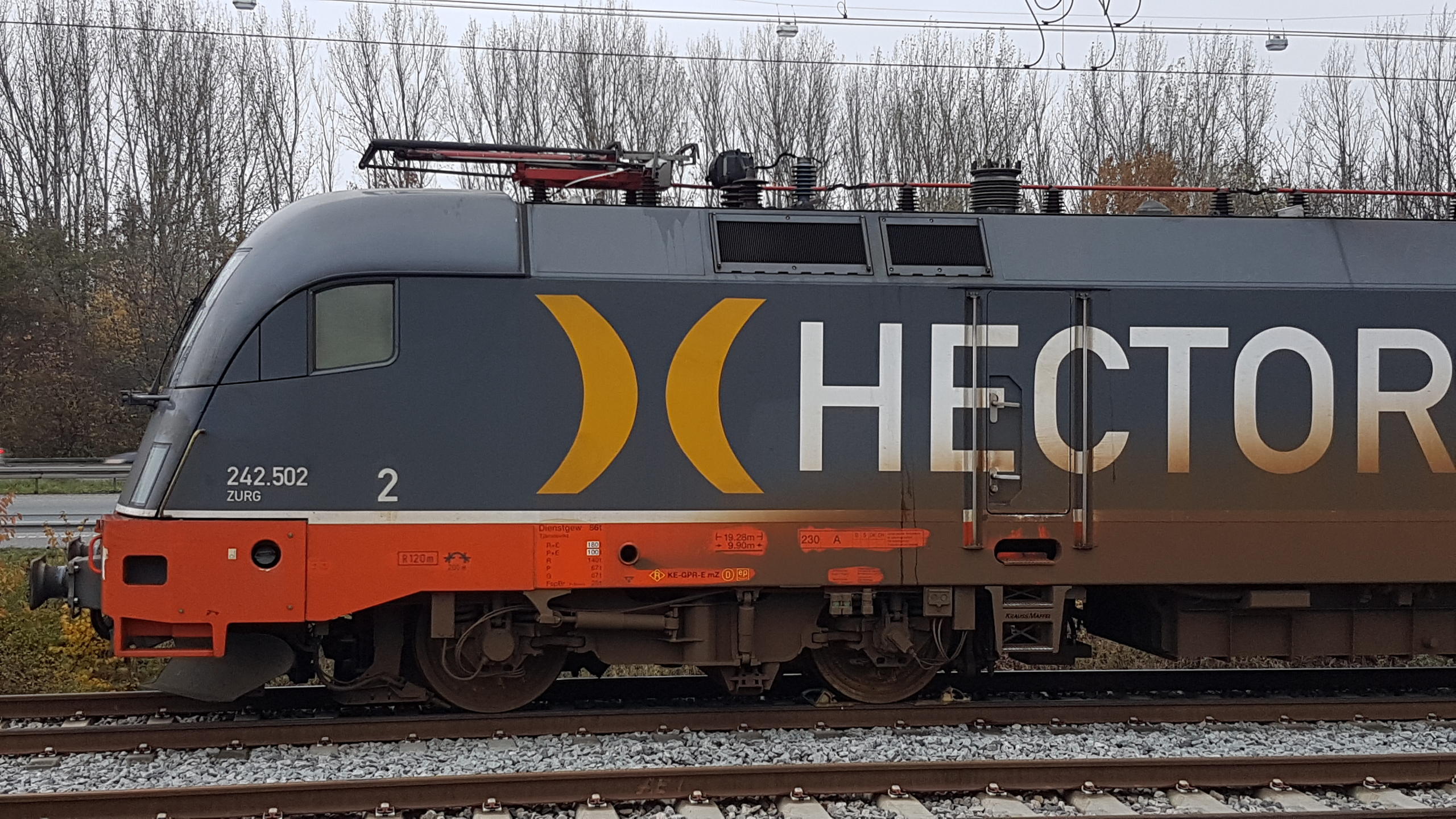 Hector Rail Siemens Taurus locomotive 242.502 'Zurg' on the Copenhagen to Ringsted high speed line between Avedøre Havnevej and Brøndbyøstervej as part of DB Systemtechnik test train for high speed test programme